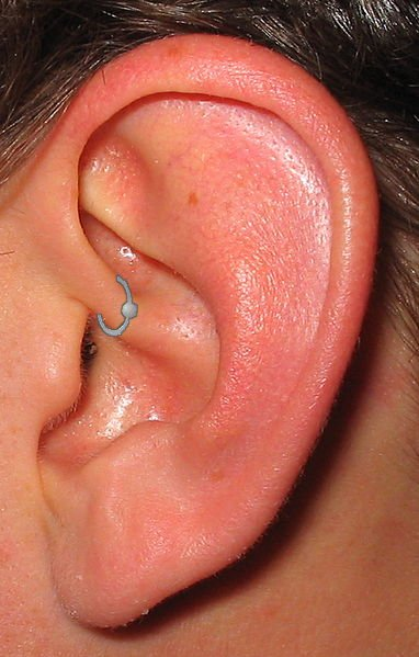 A left human ear with a daith piercing drawn in.